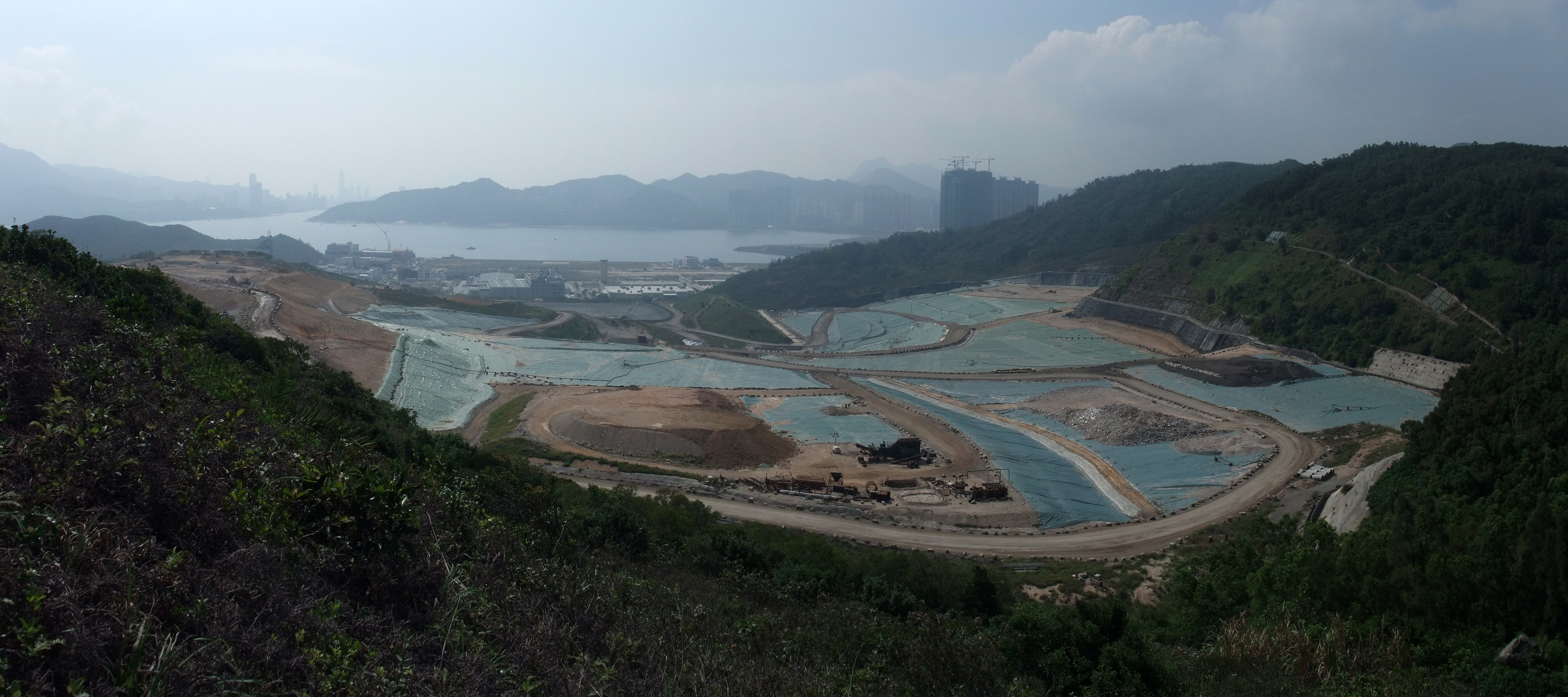 Panoramic photo of South East New Territories Landfill, combined from 3541065730, 3541068592 and 3540261227